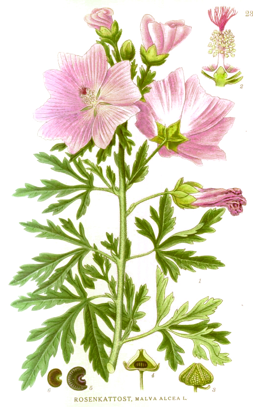 Illustration of Malva alcea